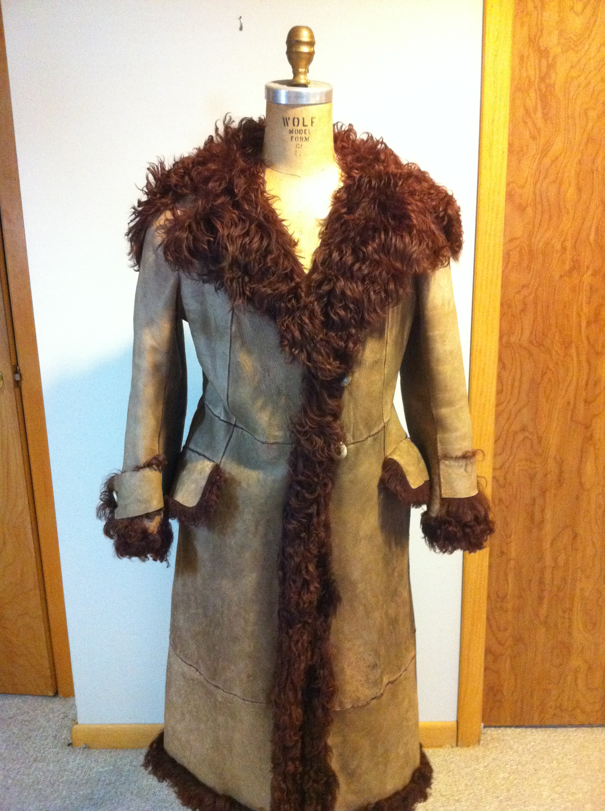 Shearling Coat 2 Front